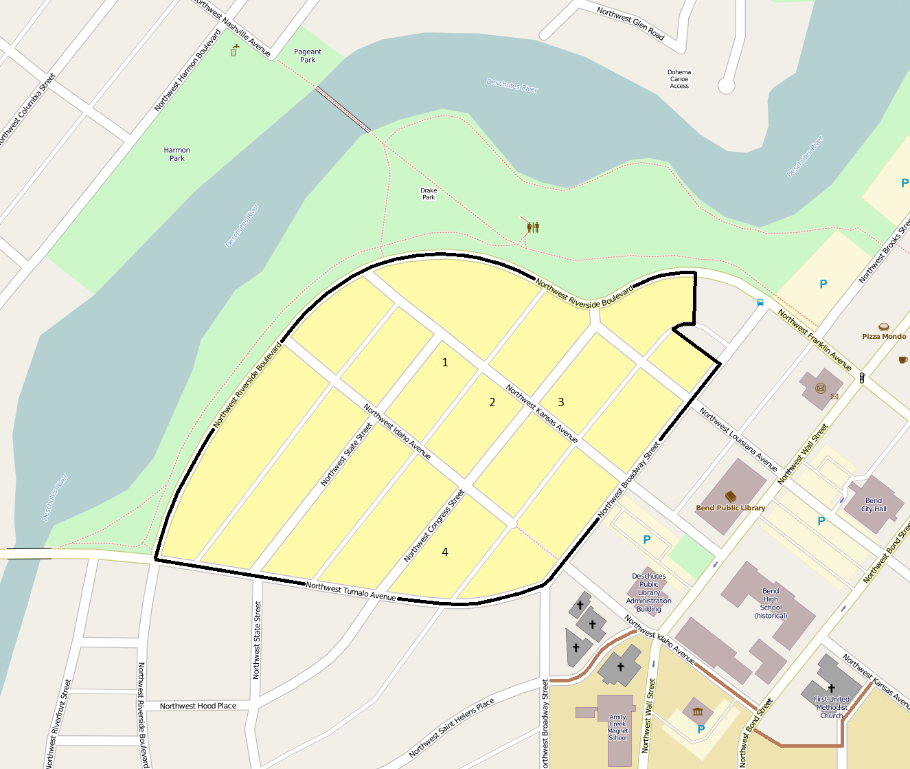 Map showing the boundaries of the Drake Park Neighborhood Historic District in Bend, Oregon, United States. The historic district is listed on the US National Register of Historic Places. Boundary data is derived from the historic district's National Register nomination form. Black boundary/yellow area: Drake Park Neighborhood Historic District boundaries. Brown boundary/tan area: Boundaries of the nearby Old Town Historic District. Numbers: Represent the locations of contributing resources in the historic district that are also listed individually on the National Register: Benjamin Hamilton House Robert D. Moore House George Palmer and Dorothy Binney Putnam House Thomas McCann House